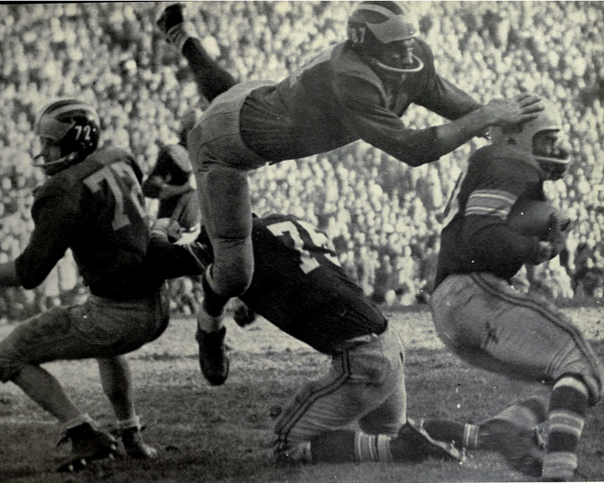 Photograph of Ron Kramer tackling Ohio State's Jim Roseboro in 1956 This work is in the public domain because it was published in the United States between 1923 and 1963 and although there may or may not have been a copyright notice, the copyright was not renewed. Unless its author has been dead for the required period, it is copyrighted in the countries or areas that do not apply the rule of the shorter term for US works, such as Canada (50 pma), Mainland China (50 pma, not Hong Kong or Macao), Germany (70 pma), Mexico (100 pma), Switzerland (70 pma), and other countries with individual treaties. See Commons:Hirtle chart for further explanation. This work is in the public domain in the United States because it was published in the United States between 1923 and 1977 without a copyright notice. See this page for further explanation. Note that it may still be copyrighted in jurisdictions that do not apply the rule of the shorter term for US works (depending on the date of the author's death), such as Canada (50 p.m.a.), Mainland China (50 p.m.a., not Hong Kong or Macao), Germany (70 p.m.a.), Mexico (100 p.m.a.), Switzerland (70 p.m.a.), and other countries with individual treaties.